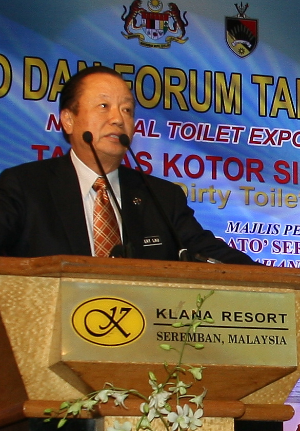 Robert Lau, as Deputy Minister of Housing and Local Government, was giving a speech during "National Toilet Expo and Forum 2008" (NATEF) held at Kelana Resort, Seremban, Negeri Sembilan, Malaysia.